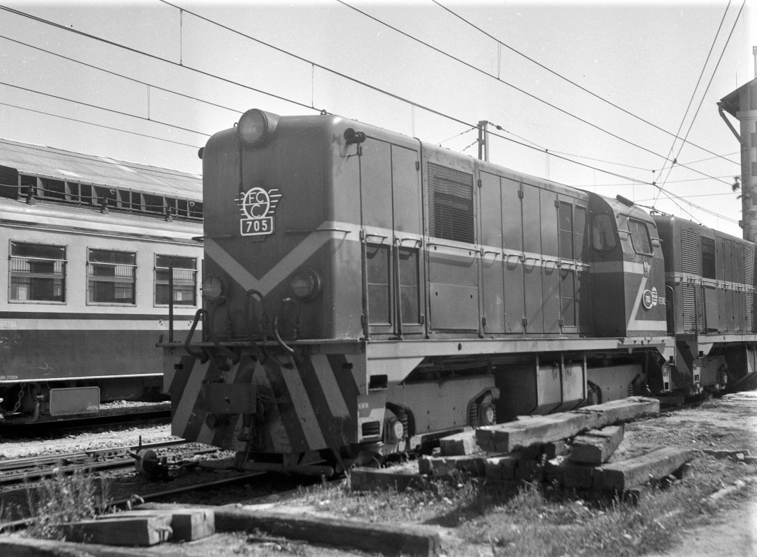 At the Martorell Enllaç depot, the Asthom 705 diesel locomotive of the Compañía General de los Ferrocarriles Catalanes (CGFC), bearing the FEVE marks.